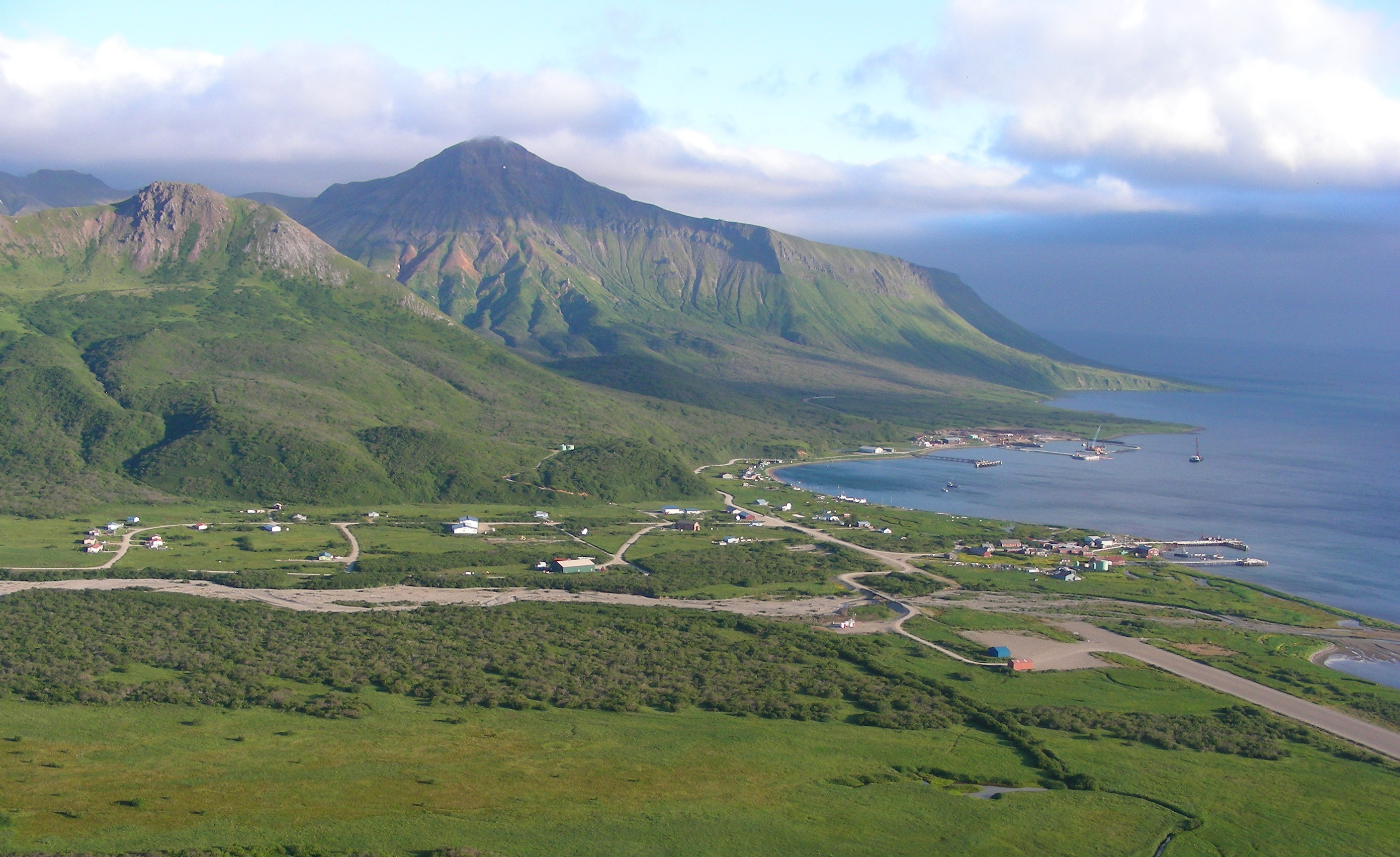 The City of False Pass, Alaska, looking north west towards the Bering Sea. The city is a seaport and fishing community located on Isanotski Strait at the mouth of a glacial valley leading east from Roundtop, an extinct volcano.